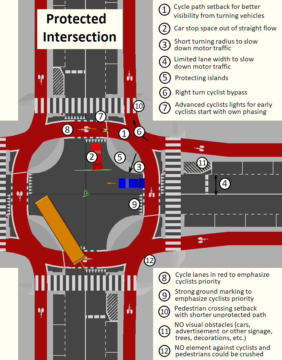 Features of a road protected intersection, as commonly used in the Netherlands. English text. The background image (with other text) cames from the design application 'Protected crossing', which is also my own work (available on my GitHub account published in November 2018 A french text version can be found at File:Fonctionnalités_d'un_carrefour_protégé.png